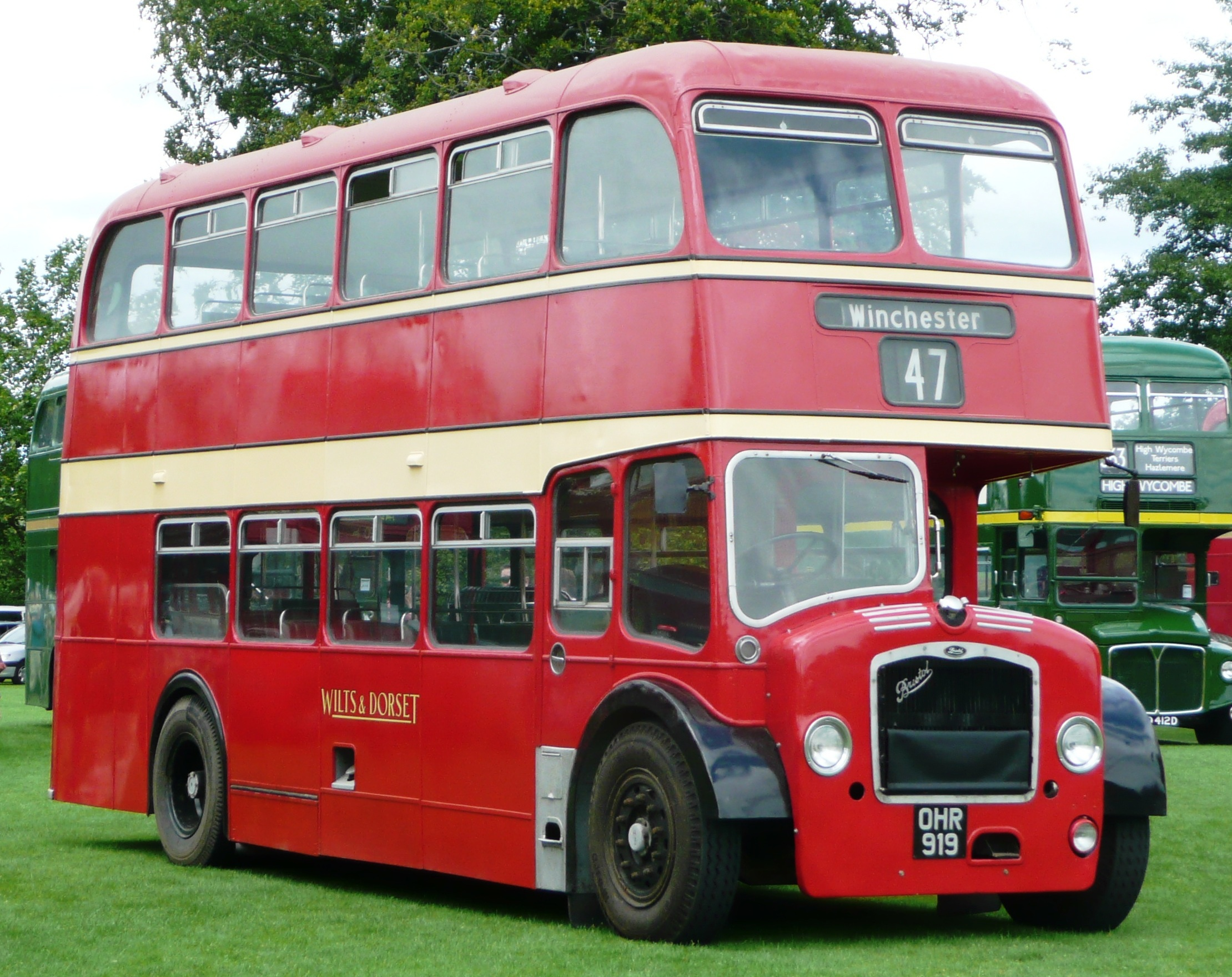 629 (OHR 919), a now preserved Bristol Lodekka/ECW previously run by Wilts & Dorset, at the 2008 Alton Bus Rally